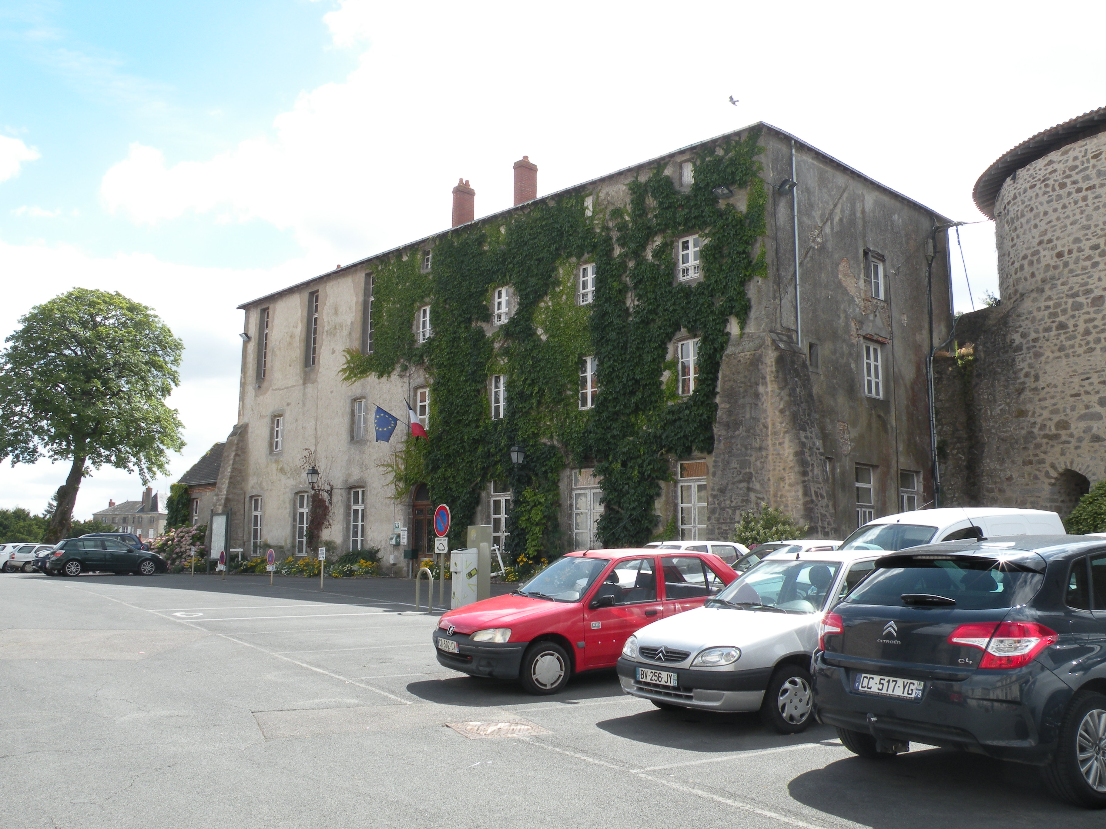 Parthenay